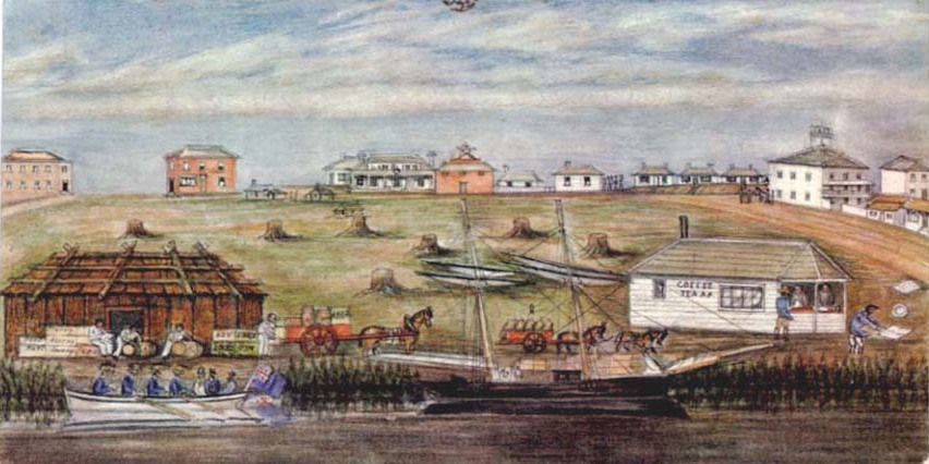 scanned image of watercolor by W. F. E. Liardet (1830)